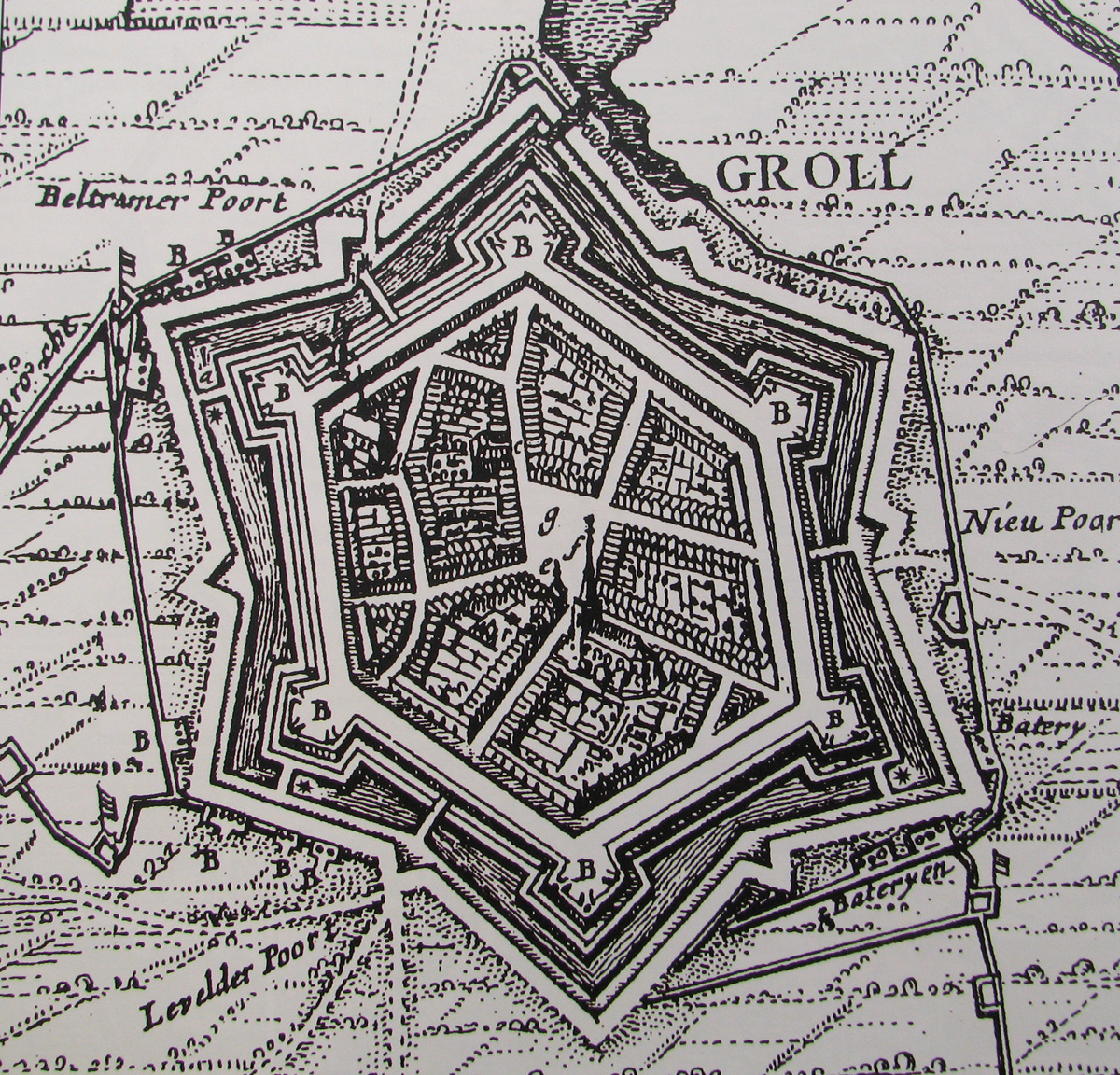 Grol (Groenlo) in 1627, detail of a bigger map portraying the Siege of Groenlo in 1627 by Frederick Henry. Siege works (approches) are visible.